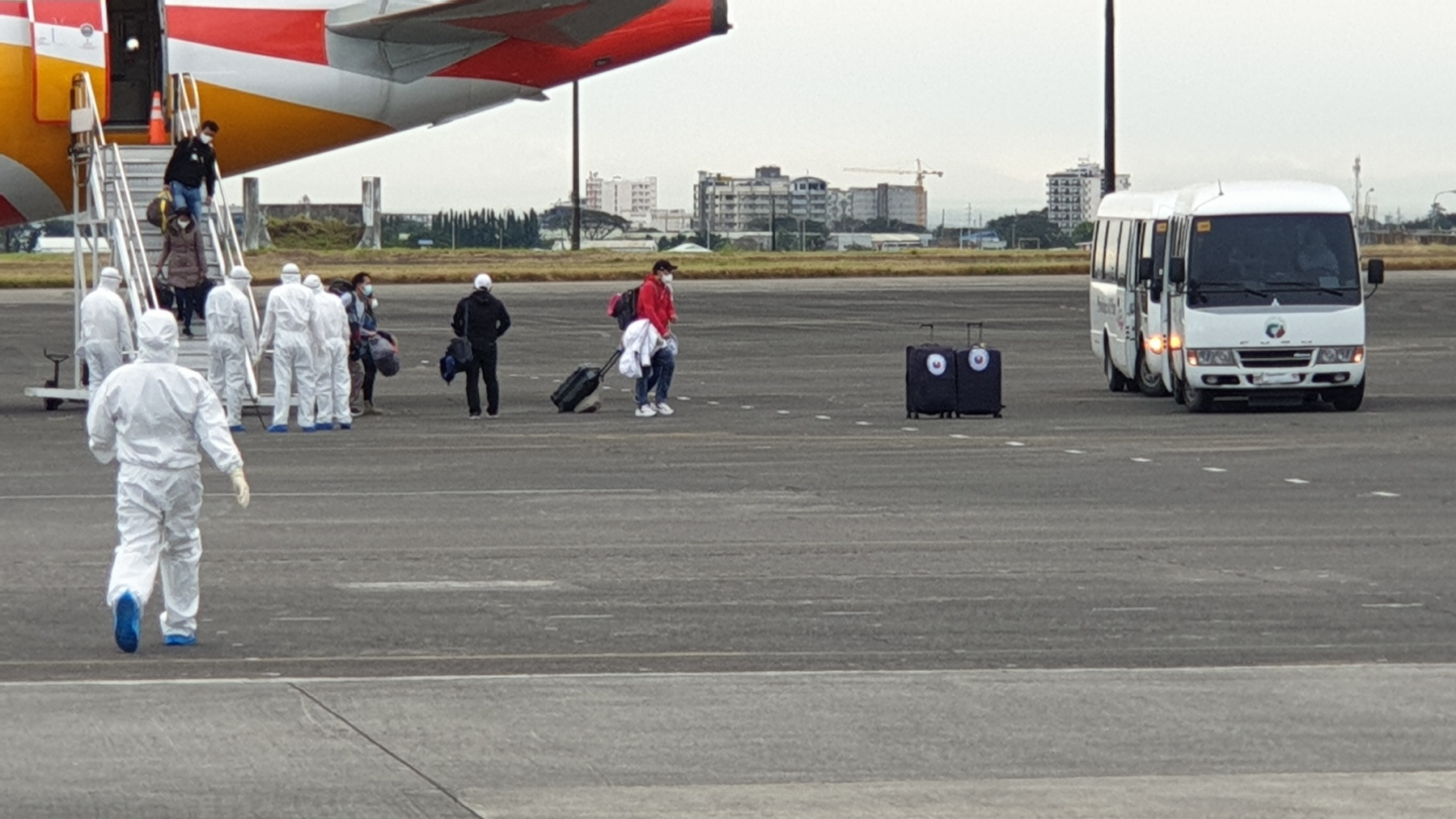 Repatriated Filipinos from Wuhan, China due to the 2019 novel coronavirus outbreak disembarks from their plane at the Clark Air Base.